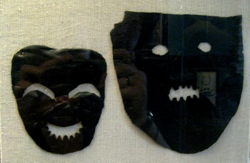 Skomorokhs' masks from leather made in 12-13 century with perfect condicion thanks to Novgorod's ground.